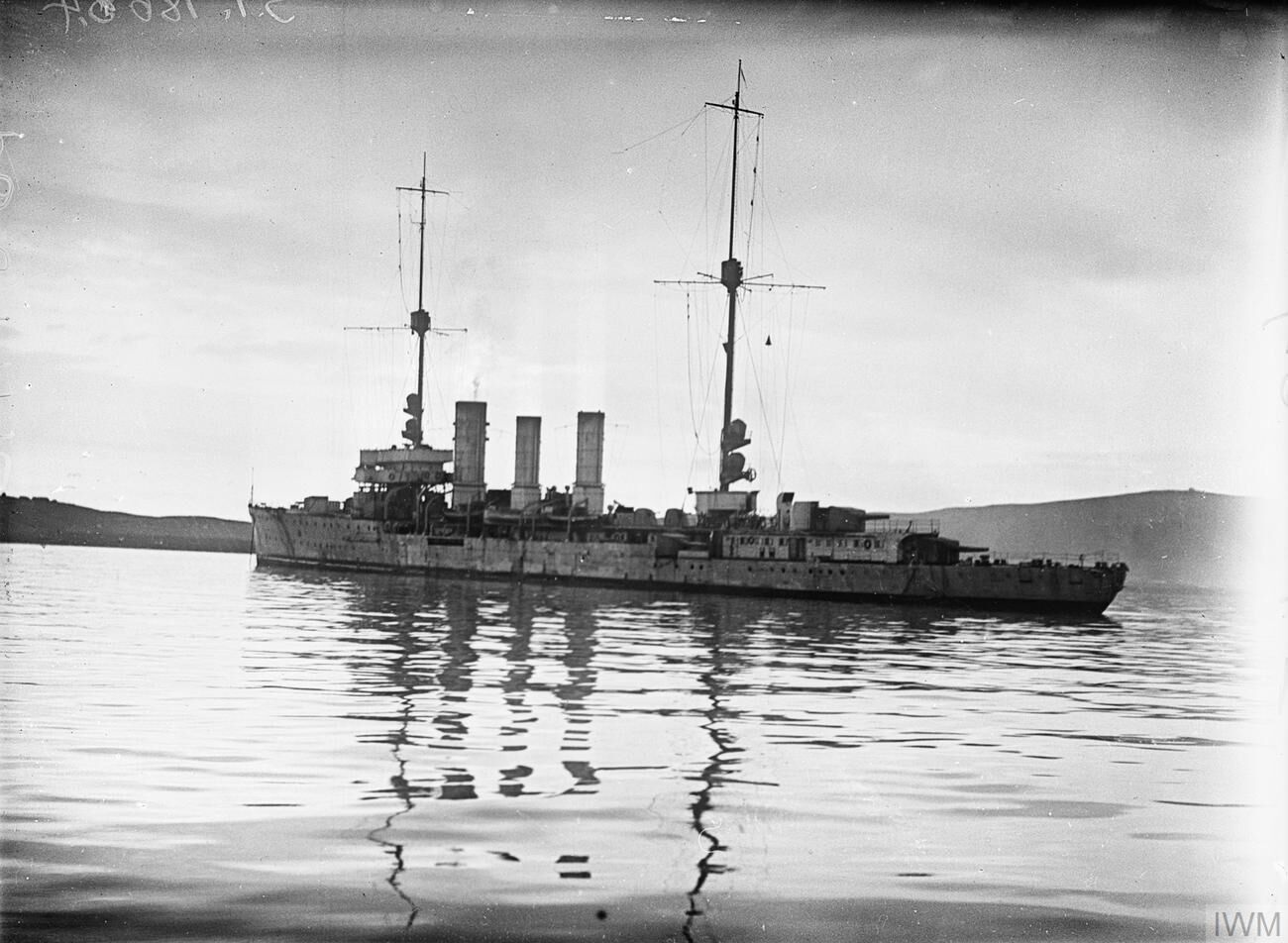 IWM caption : "Internment at Scapa Flow 24 November 1918 - 20 June 1919: SMS EMDEN, Flagship of Admiral Reuter at Scapa Flow."